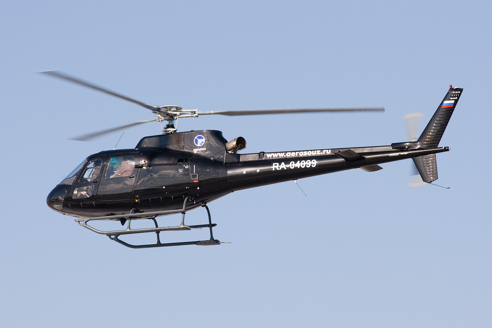 Eurocopter AS-350